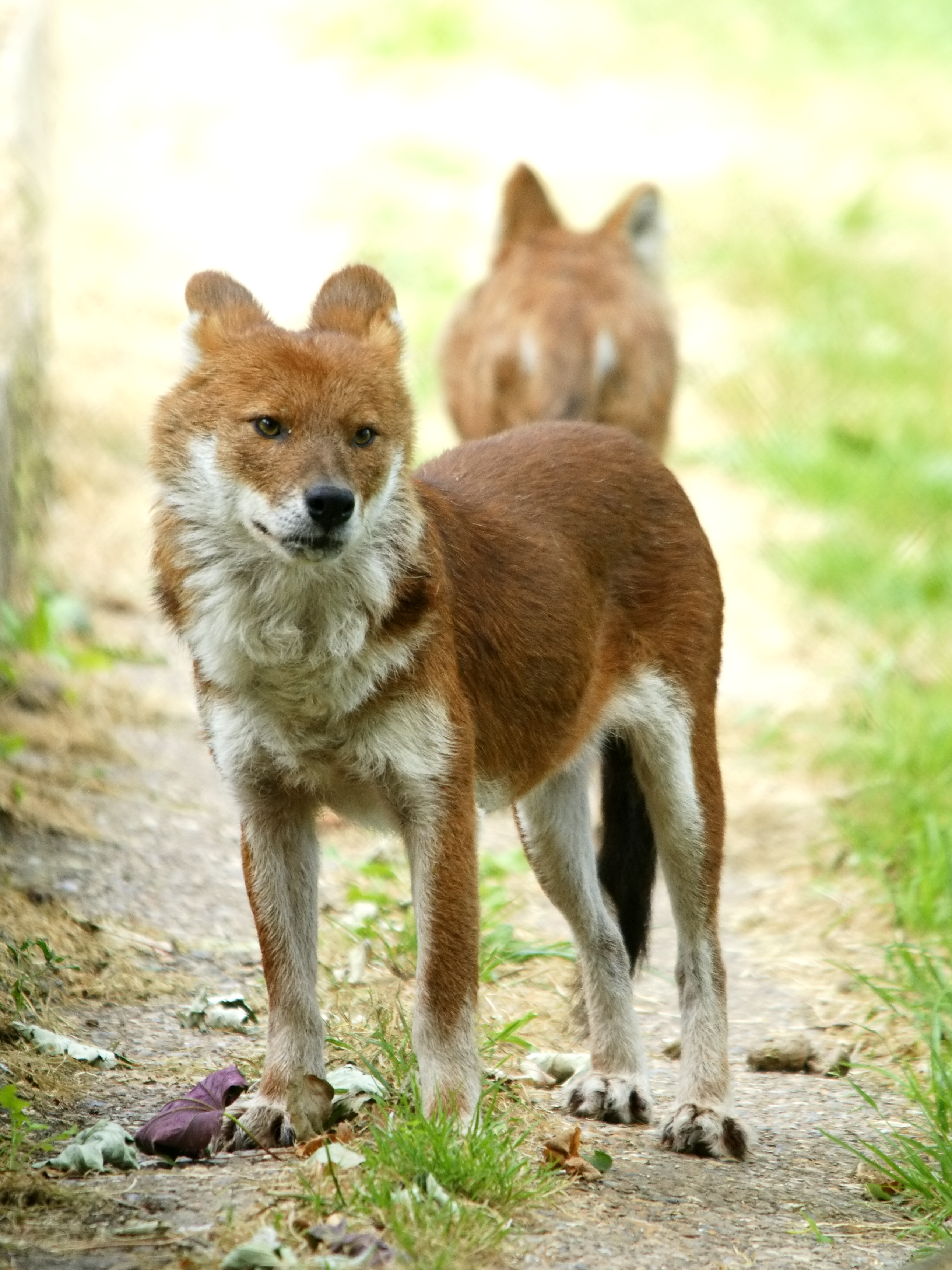 Dhole at Port Lympne Wild Animal Park, Kent, UK.